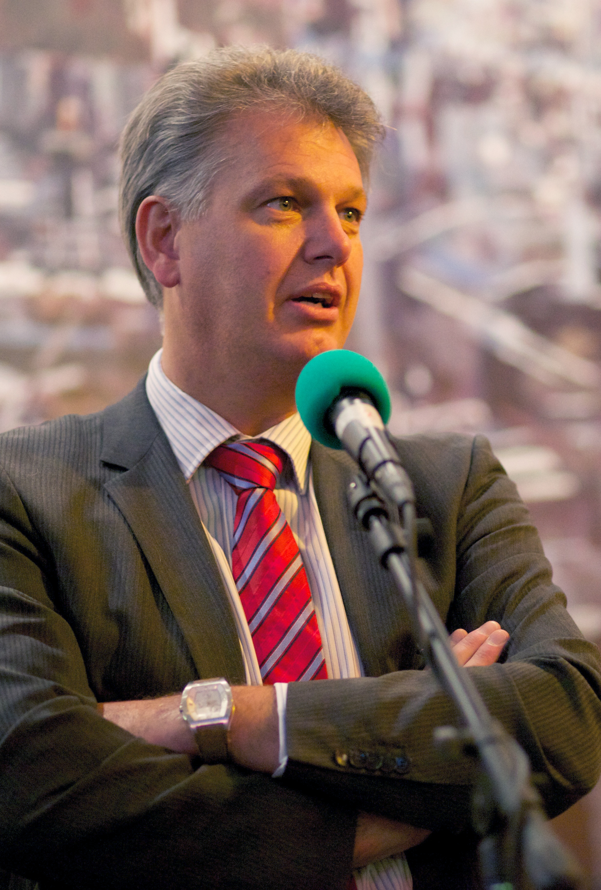 Hero Brinkman at the Right to Know Day 2010